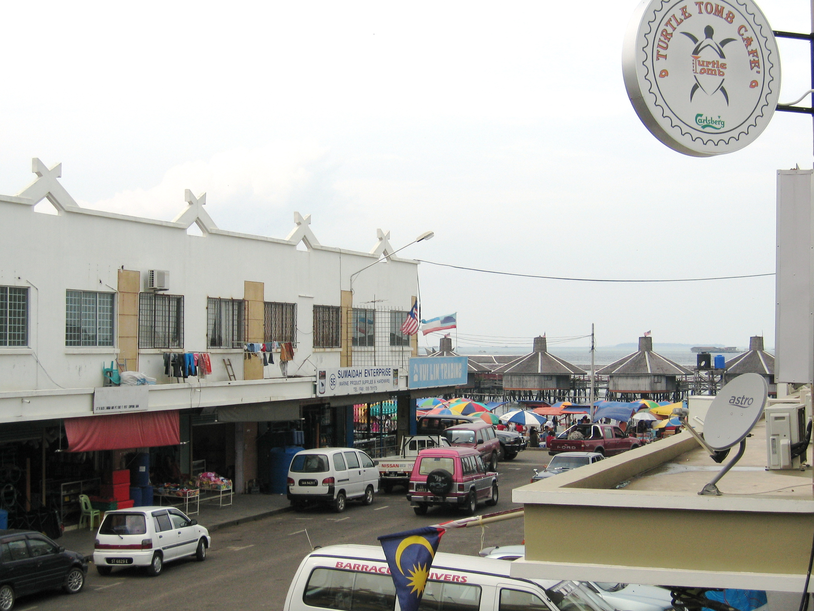 Semporna town.